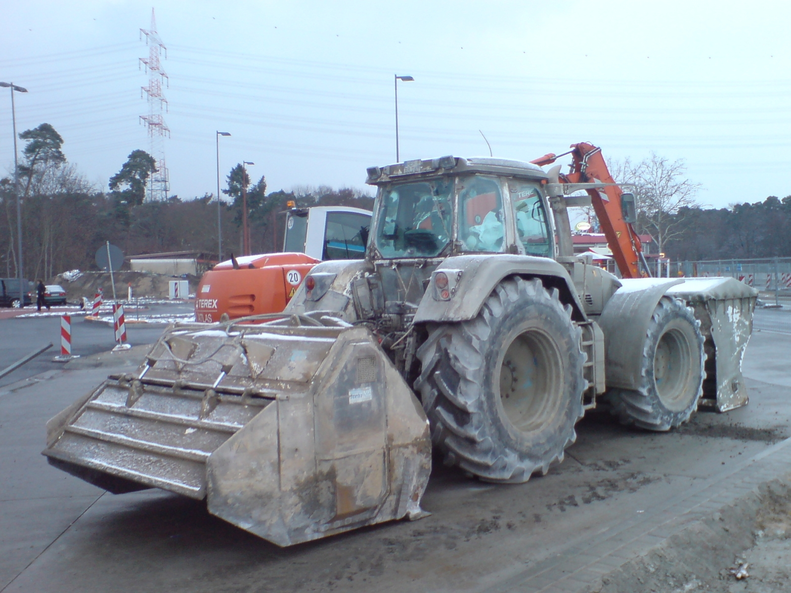 Some roadworks machinery at the motorway rest stop construction site near Gräfenhausen (in turn near Darmstadt), Germany.